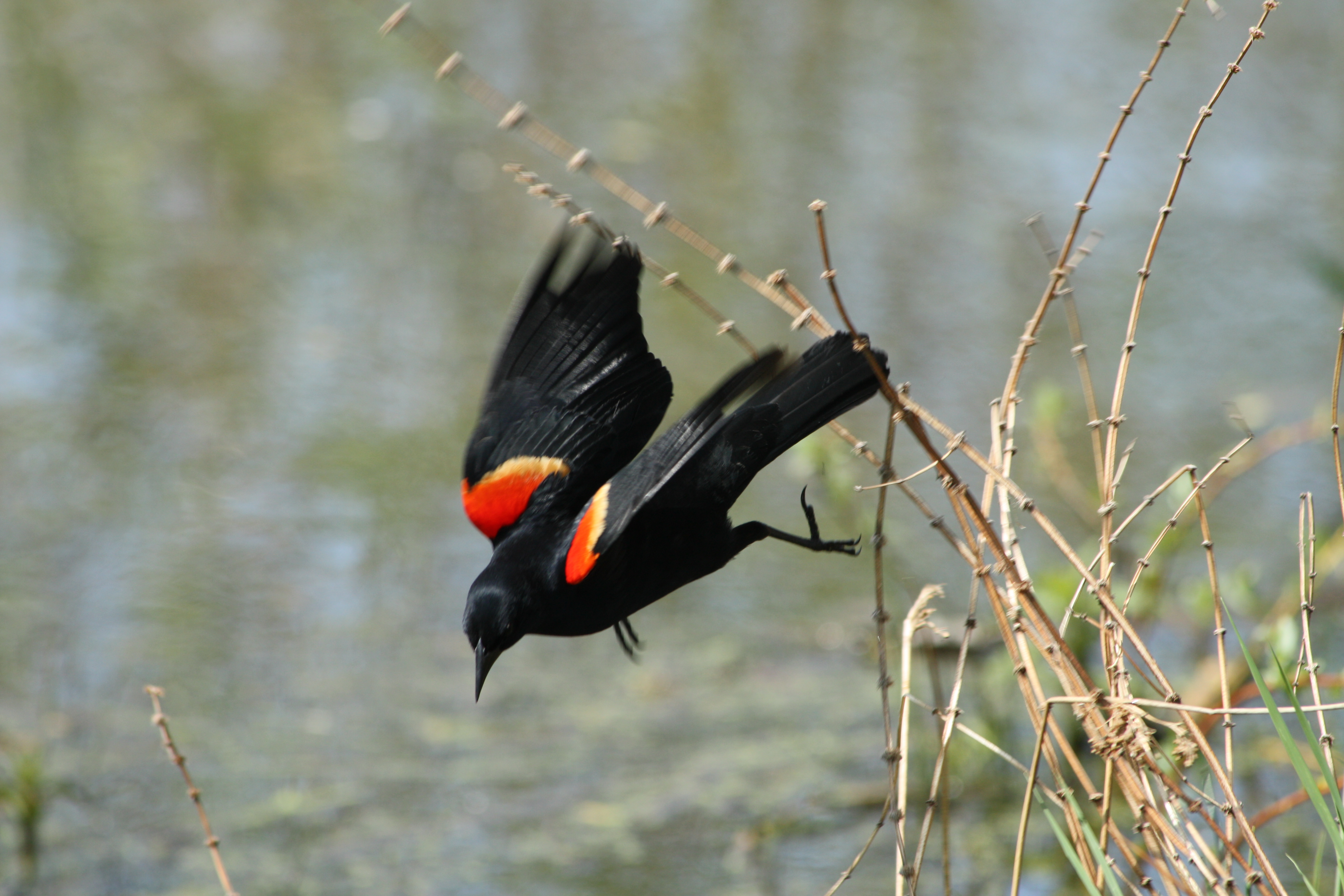 Red-winged Blackbird male